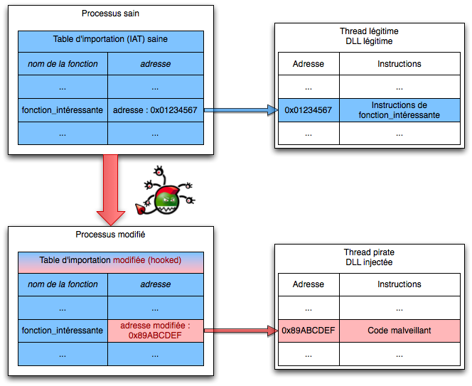 API Hooking by import adress table (IAT) patching